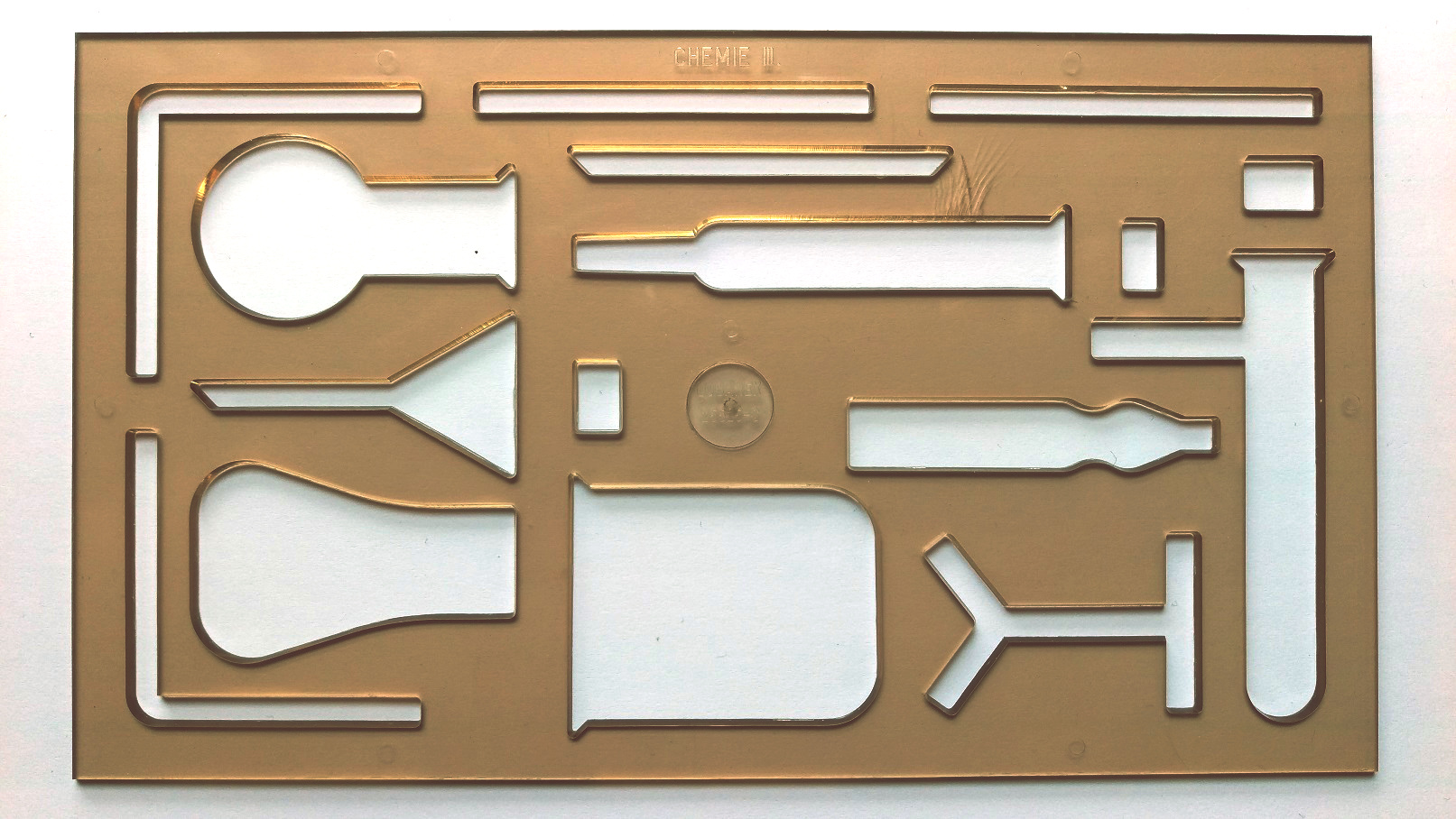 Stencil for drawing of chemical equipment